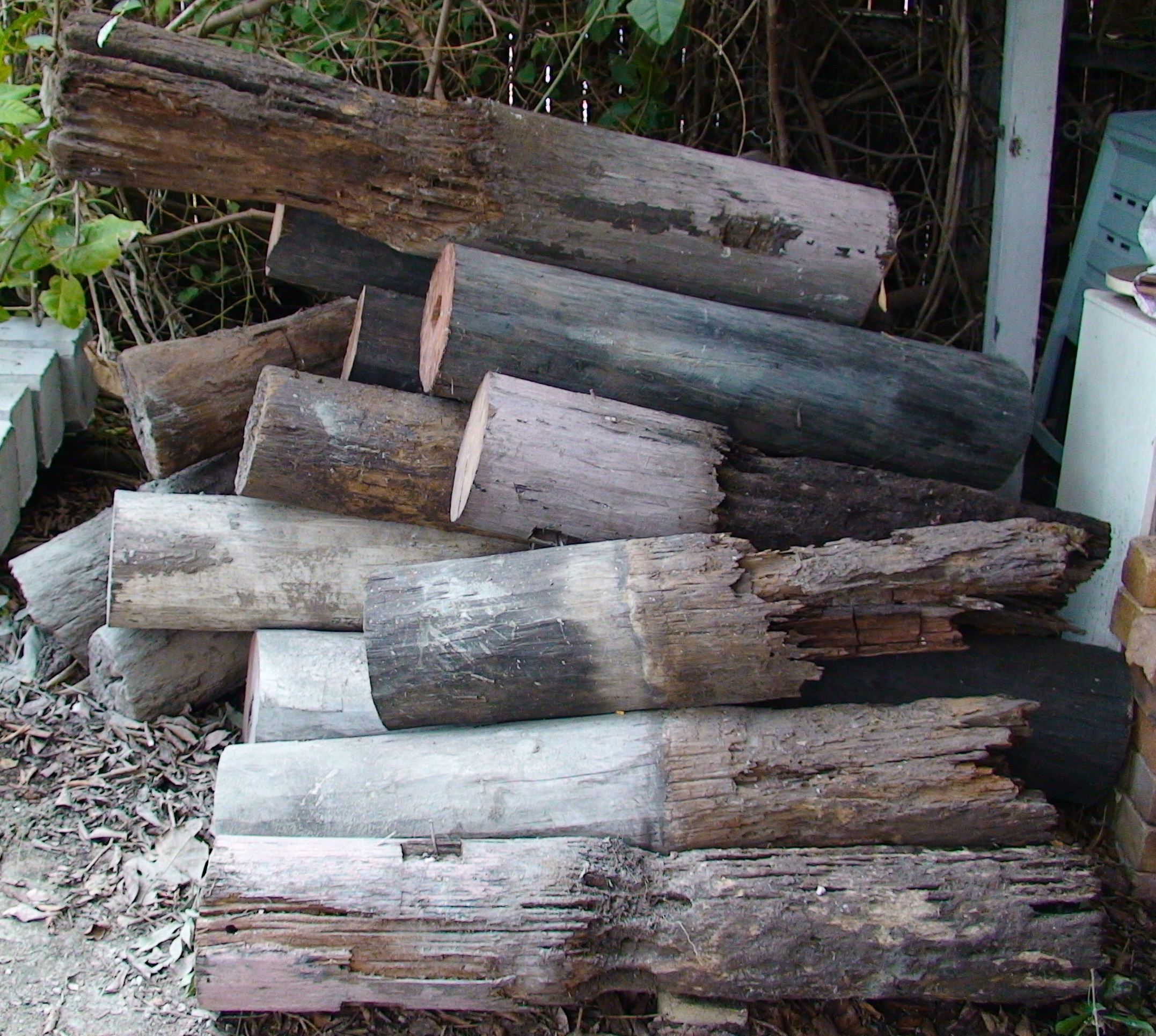 Wooden stumps extracted in 2007 from a 1930s Queenslander house in Brisbane, Australia. Extensive damage to the subterranean parts of the stumps was caused by termites.